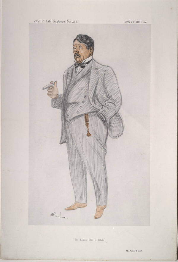 Men of the Day No.2317: Caricature of Mr Enoch Arnold Bennett. Caption reads: "The Business Man of Letters"